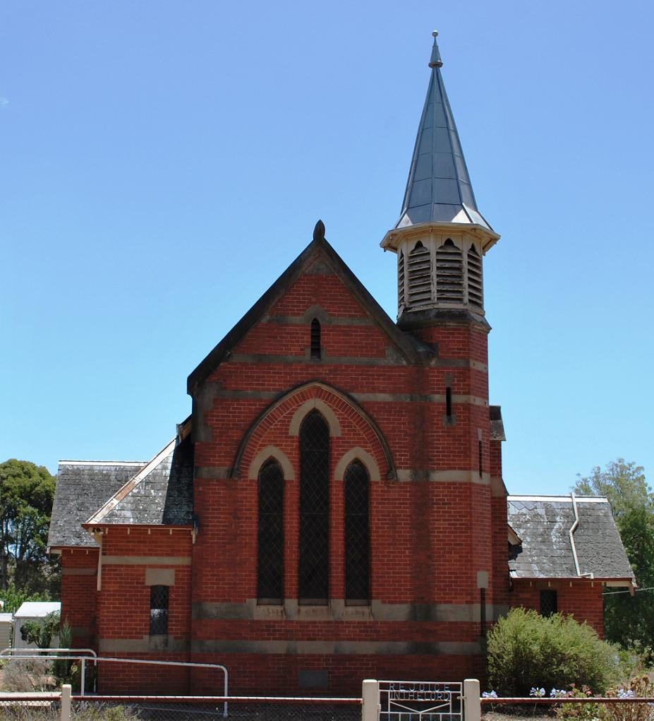 Presbyterian church at Broadford, Victoria